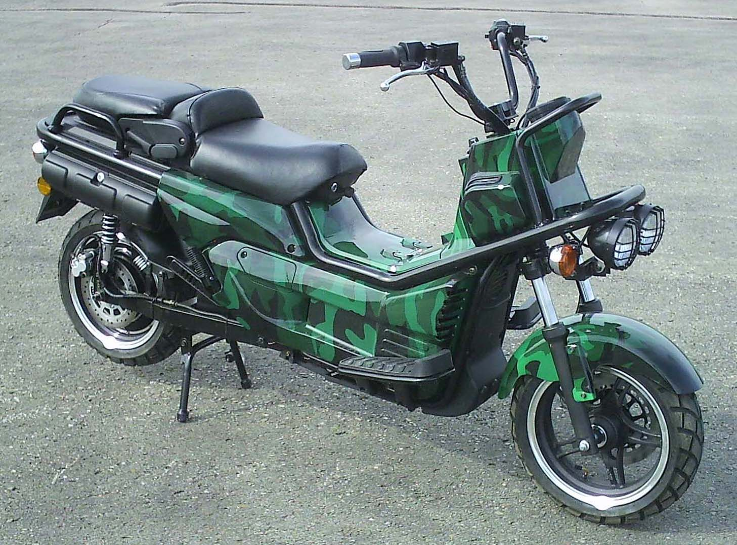 Z Electric Vehicle's first off road model. Fully Electric, Worlds longest range electric motorscooter as of 2010.